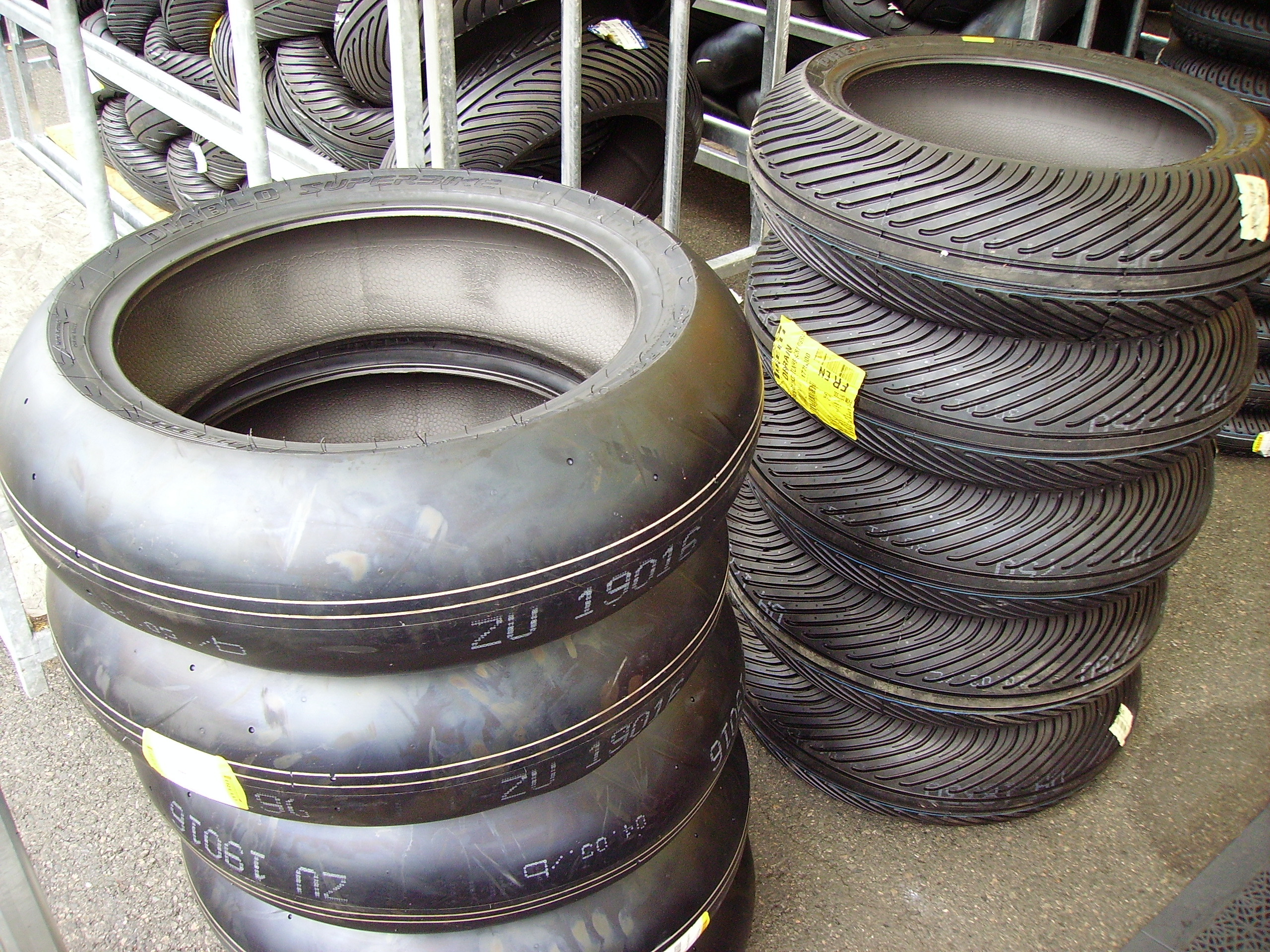 Rear tyres for Superbike motorcycles: racing slicks (Pirelli Diablo Superbike, left pile) and rain tyres (Pirelli Rain, right pile).